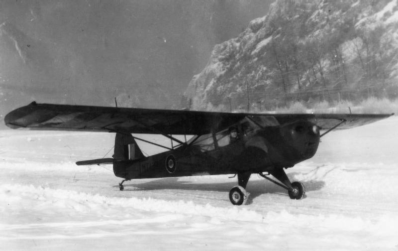 Aircraft of the Royal Air Force 1939-1945- Taylorcraft Auster. Taylorcraft Auster AOP Mark IV, MT133, of No 662 (AOP) Squadron RAF, taxying in the snow at Yvert, Belgium.